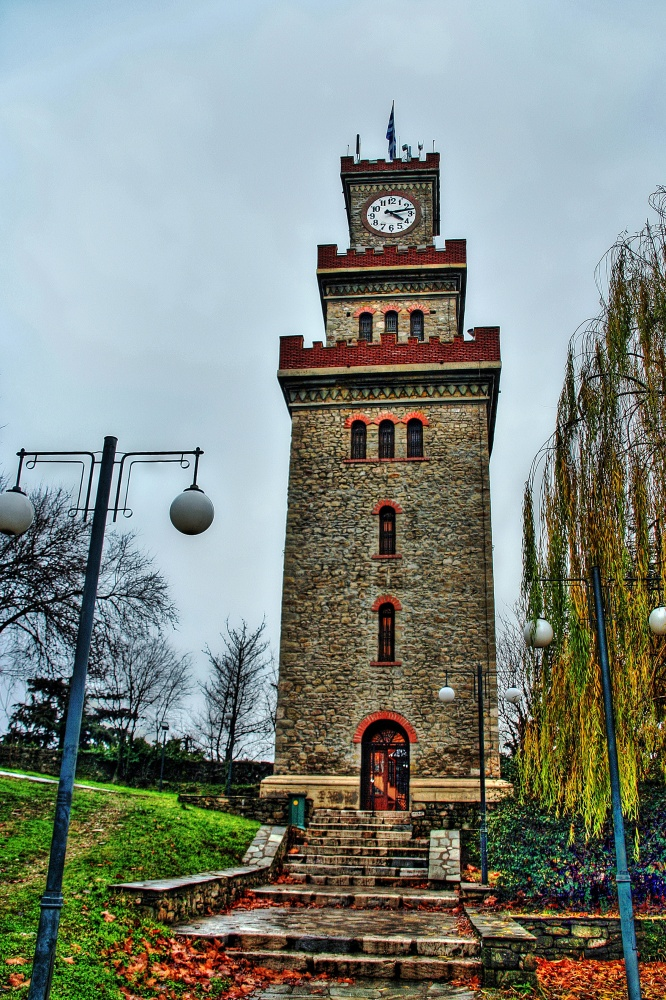 Clock tower in the city of Trikala, Greece.